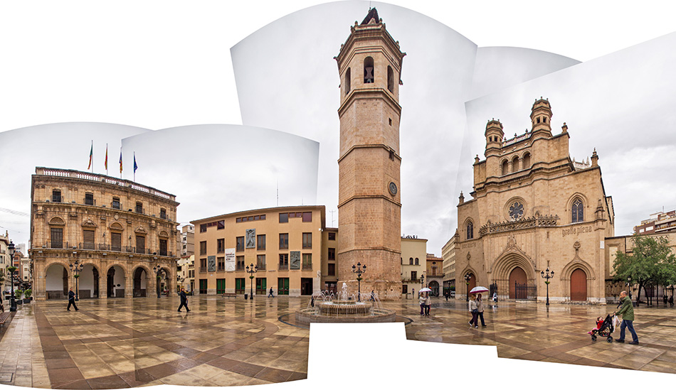 Plaza mayor de la ciudad de Castellón.